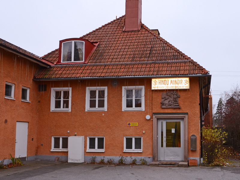 The Hindu temple Hindu Mandir in Heleneludn, Sollentuna